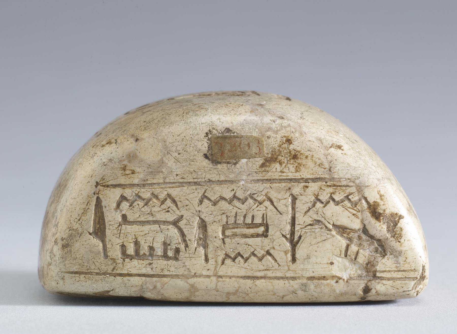 Daughter of King Thutmose I and wife of her half-brother, King Thutmose II, Queen Hatshepsut eventually ruled Egypt as pharaoh in her own right. This commemorative stone was placed at a construction site, probably of the temple built for her at Deir el-Bahari, one of the most beautiful monuments of ancient Egypt. It bears the queen's throne name, Maat-ka-re, as well as that of the temple's architect, Senenmut.